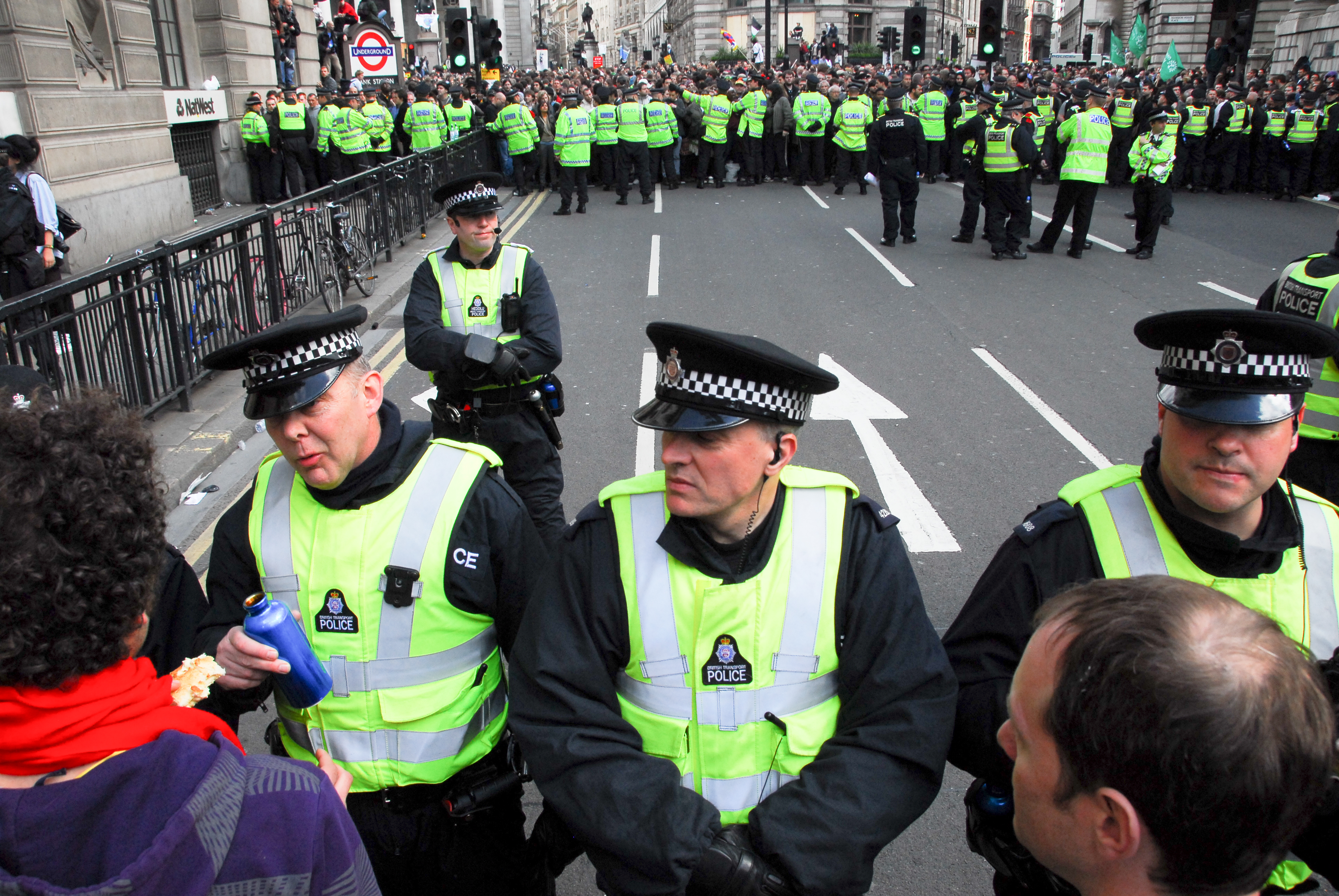 Lines of police, including British Transport Police, at the G20 Meltdown protest in London on 1 April 2009